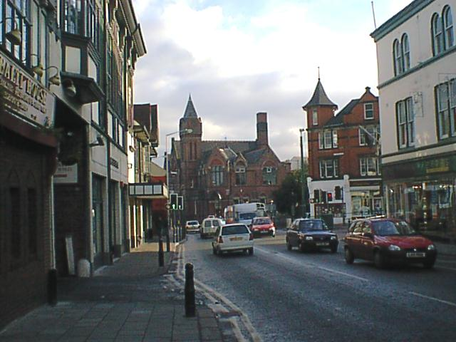 Chesterfield - Holywell Street view towards Museum Adjoining the Museum (former Library) is the Pomegranate Theatre.